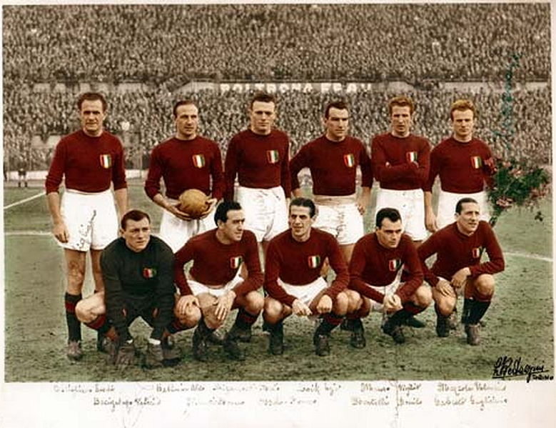 Italian football team, Torino F.C. line-up, known as Grande Torino due to their successful campaigns.